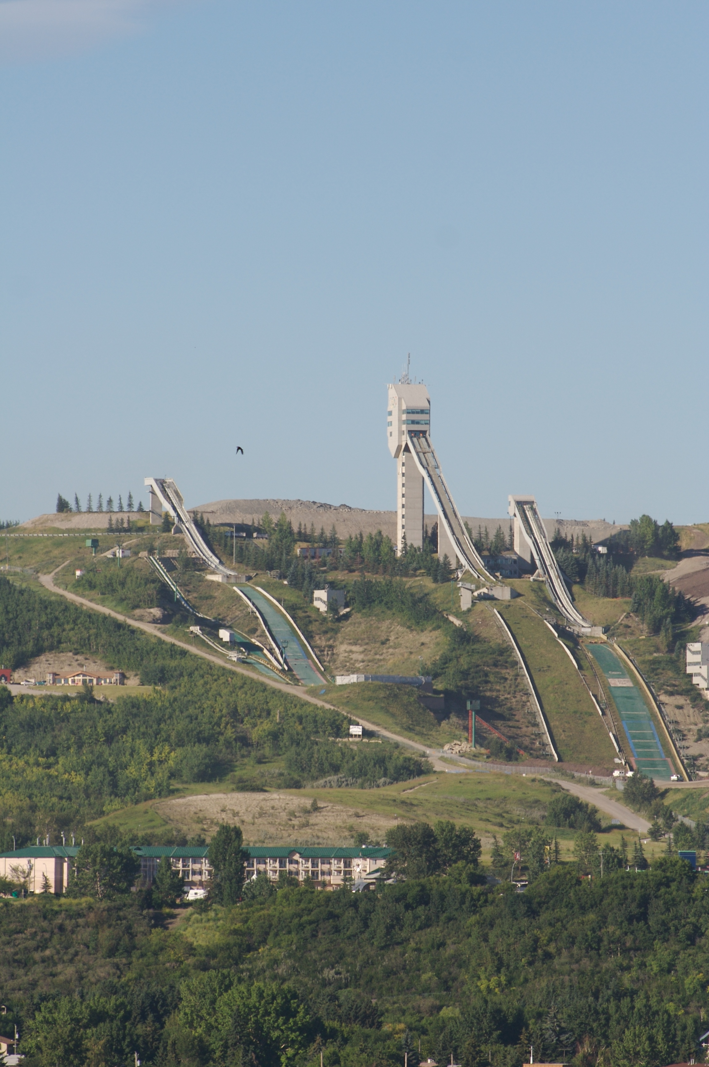 The ski jumping hills at Canada Olympic Park in Calgary